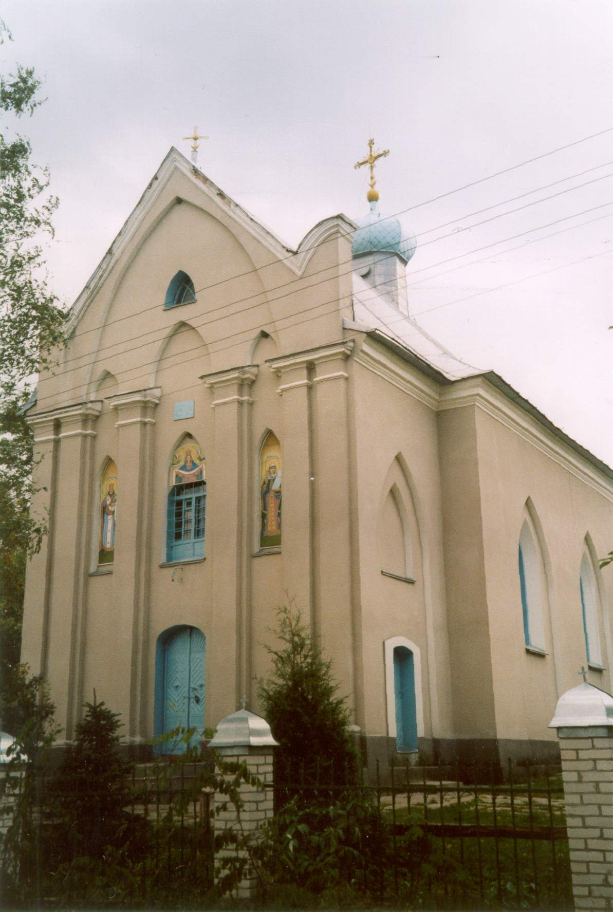 St. Paraskeva church in Chernitsya, Brody raion, Lviv Oblast, Ukraine